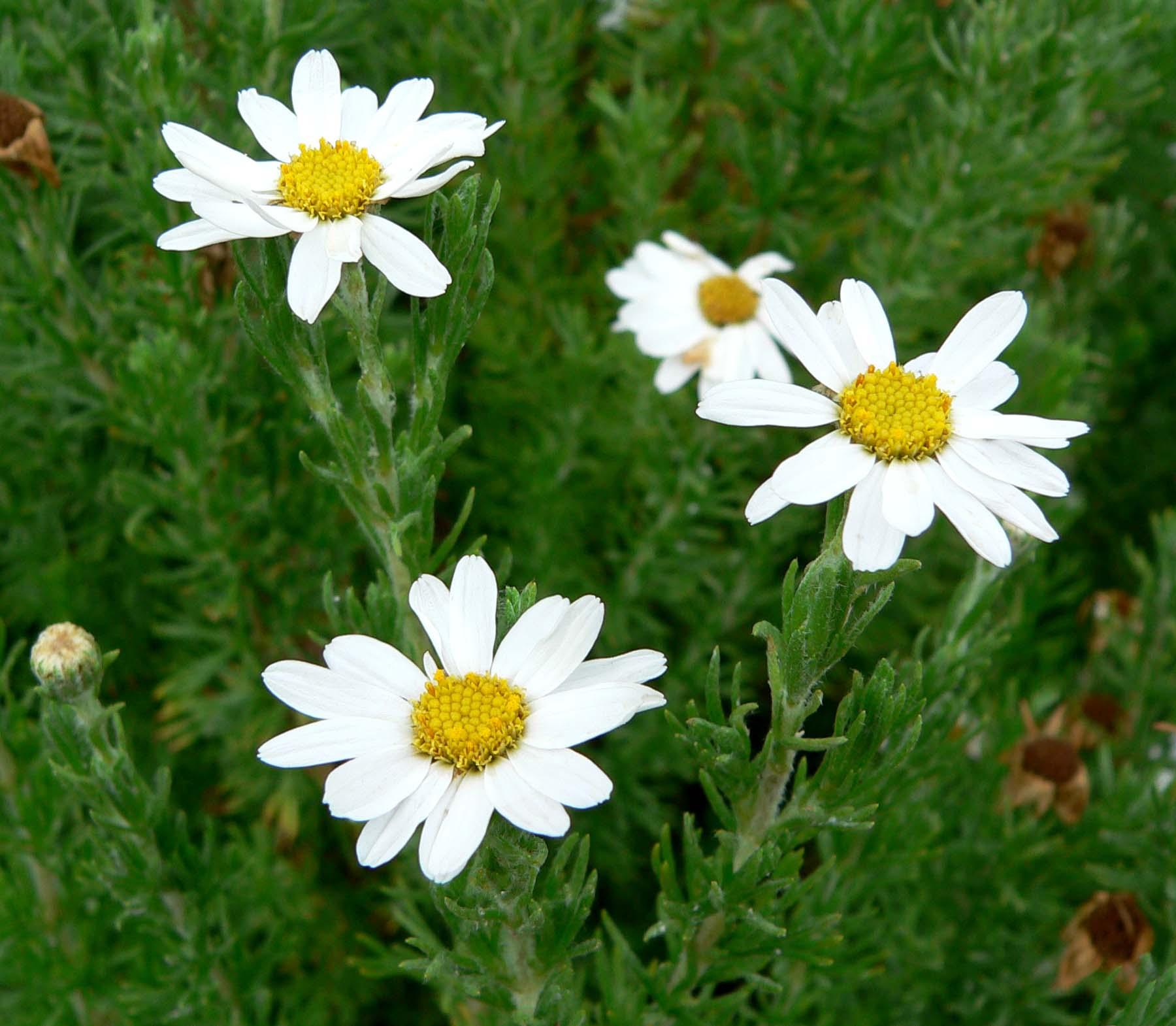 Photo of Eumorphia sericea ssp. robustior at the UBC Botanical Garden